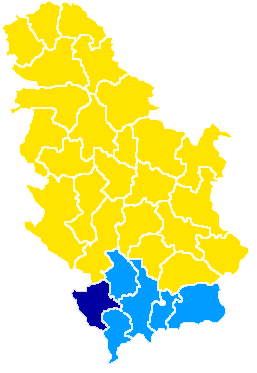 Serbian parliamentary election, 2008, most votes by Districts. Orange is For a European Serbia, Light blue is Serbian Radical Party and Dark Blue is the Populist Coalition.